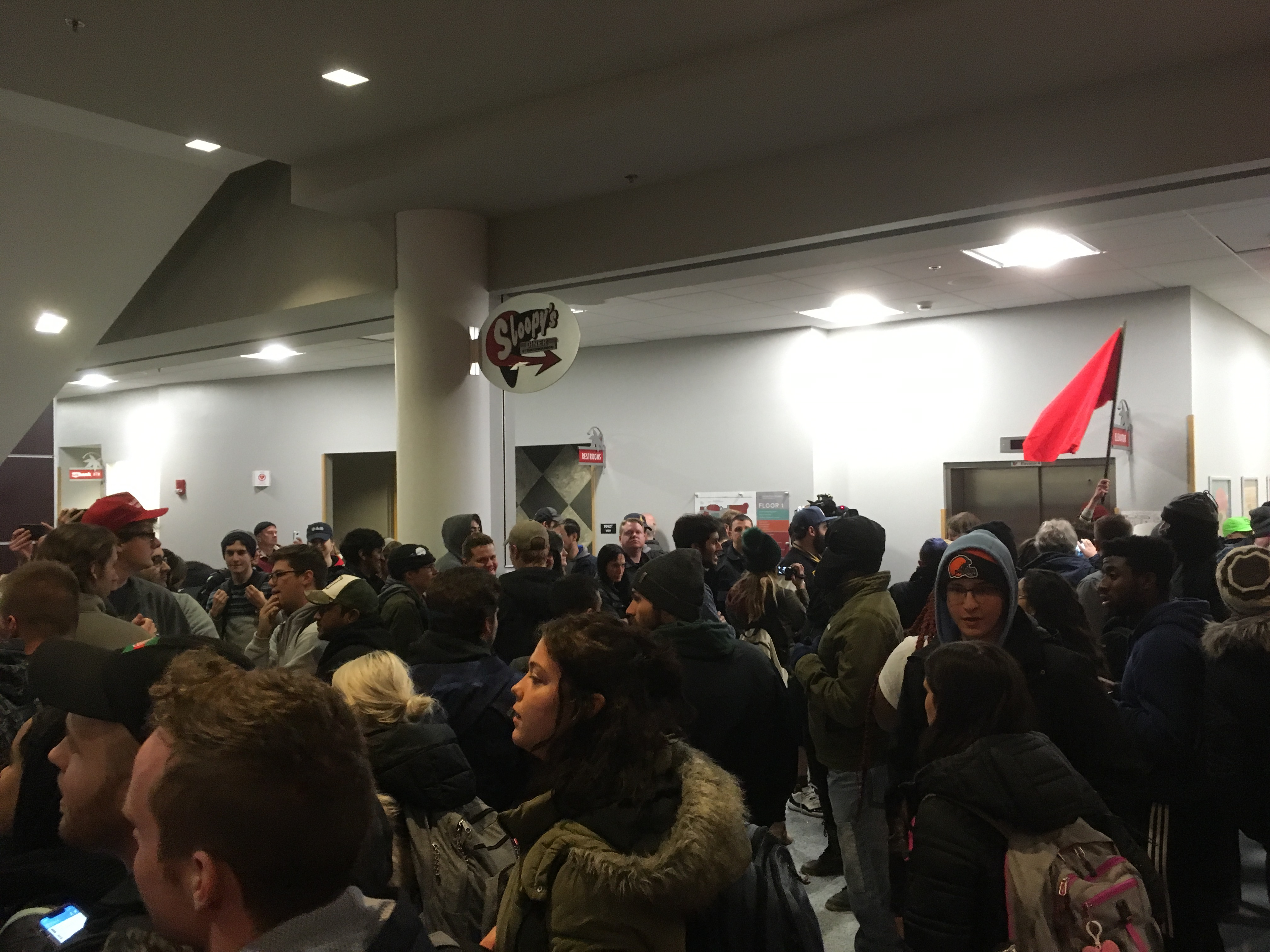 Protesters and Counter-Protesters of Ben Shapiro's speech at the Ohio Union on November 13, 2018 at The Ohio State University.